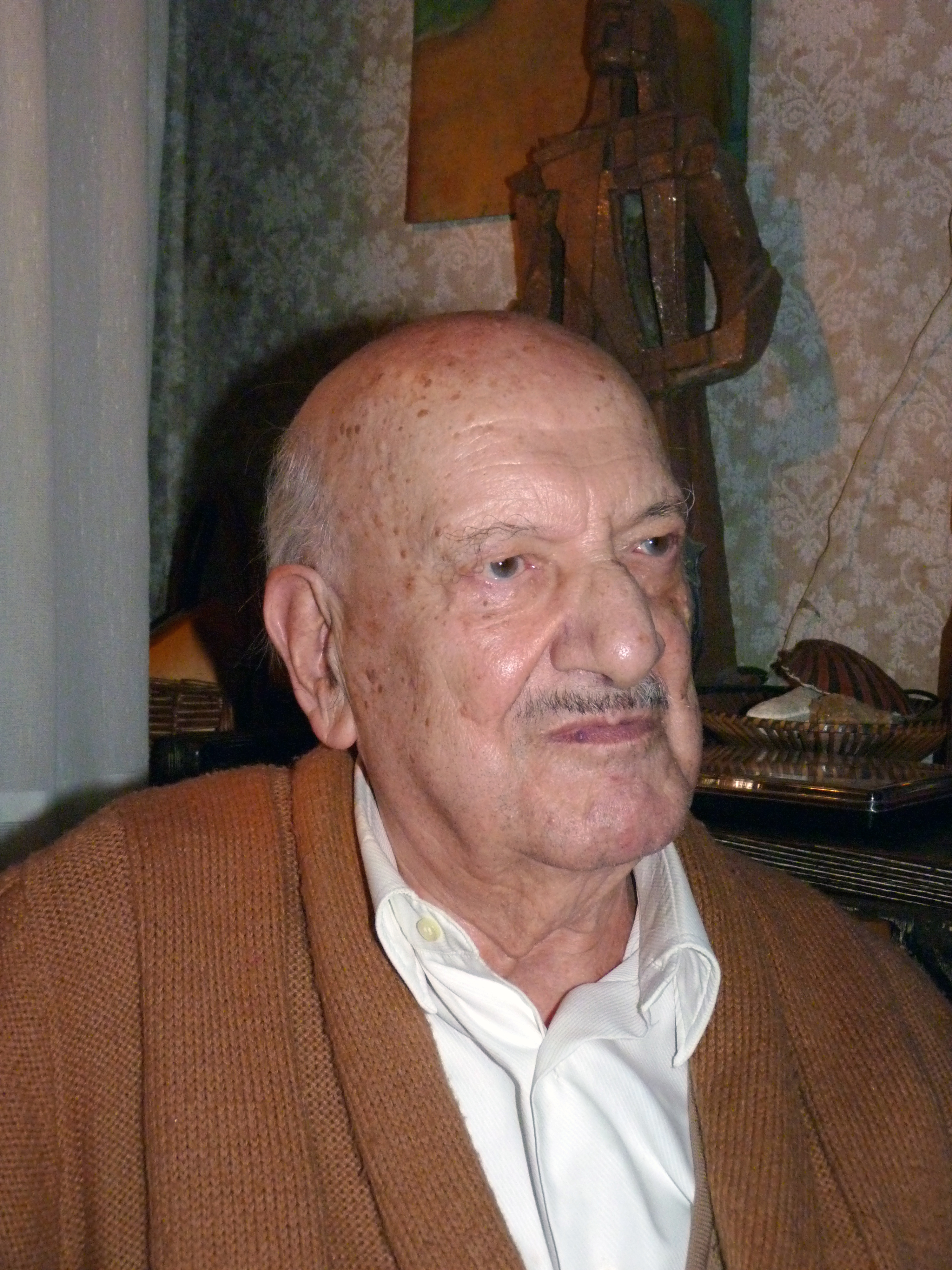 Giovanni Battista Giraldi (1 July 1915) italian philosopher, philologist, professor, writer and artist.